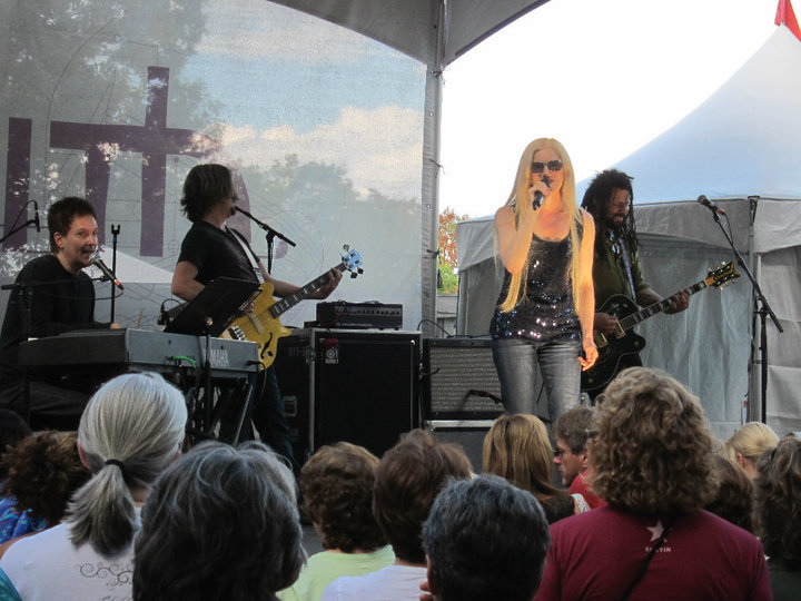 Ann McNamee performing with her band Ann Atomic at Lilith Fair, Tweeter Center, Mansfield, MA on Aug. 3 2010.